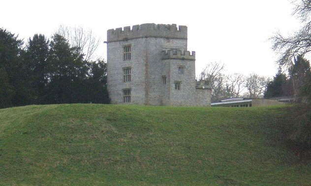 Castle Keep in Newton St. Loe College. Reputed to be Norman, and thought to be part of a one time fortified Manor House.